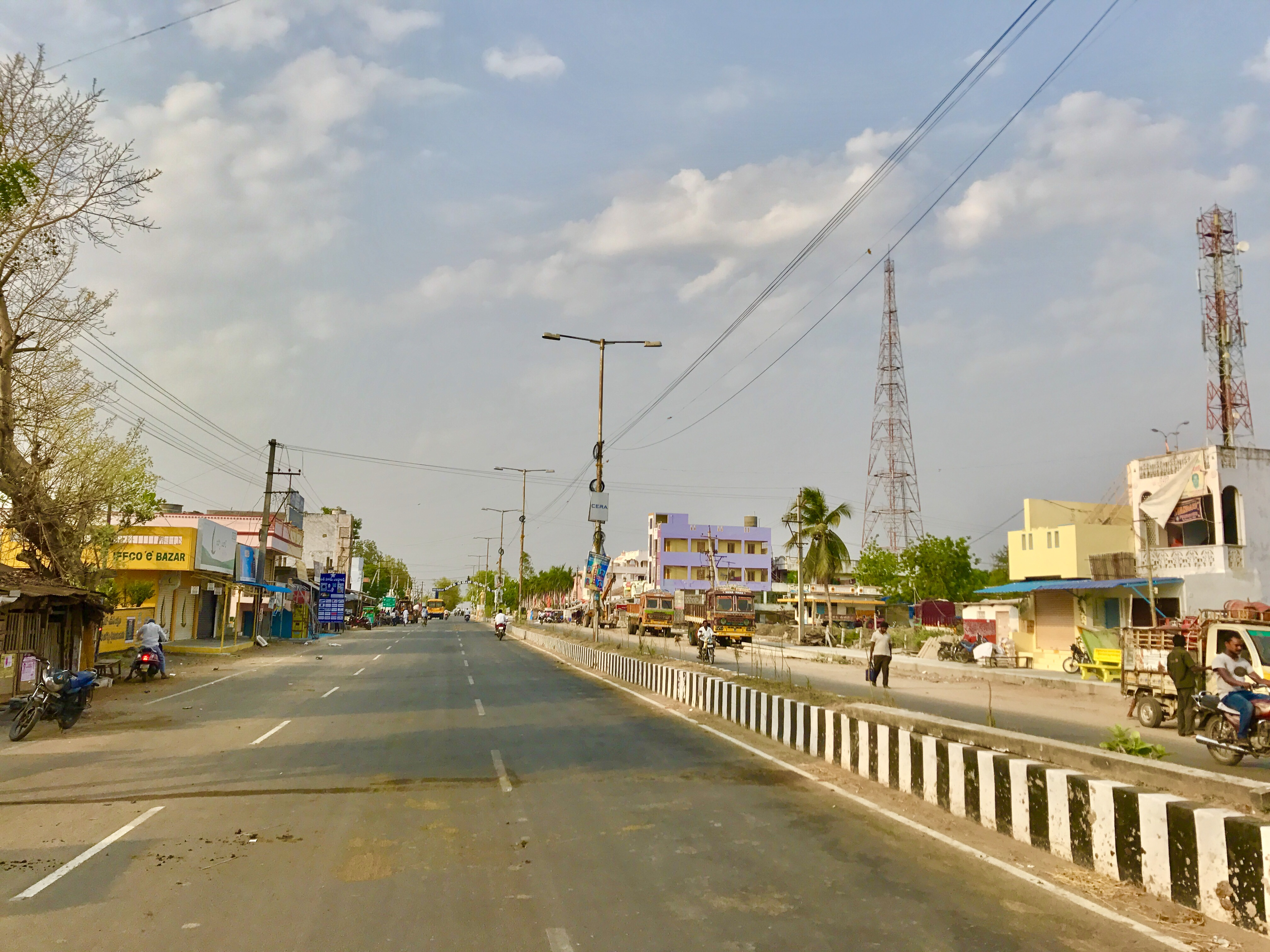 Main road in Amaravathi